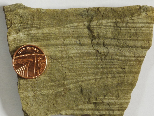 A piece of volcaniclastic sandstone of the Deepdale Sandstone Formation, found near the summit of Helvellyn